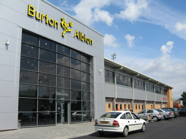 Burton Albion FC, Pirelli Stadium, Burton upon Trent, Staffordshire. In July 2005, Burton Albion FC moved, literally across the road, from their old Eton Park ground and into the new Pirelli Stadium on Princess Way. The stadium cost around £7 million to build and has a capacity of approximately 6,000. It straddles northing SK25. Burton Albion are in the Nationwide Conference League.